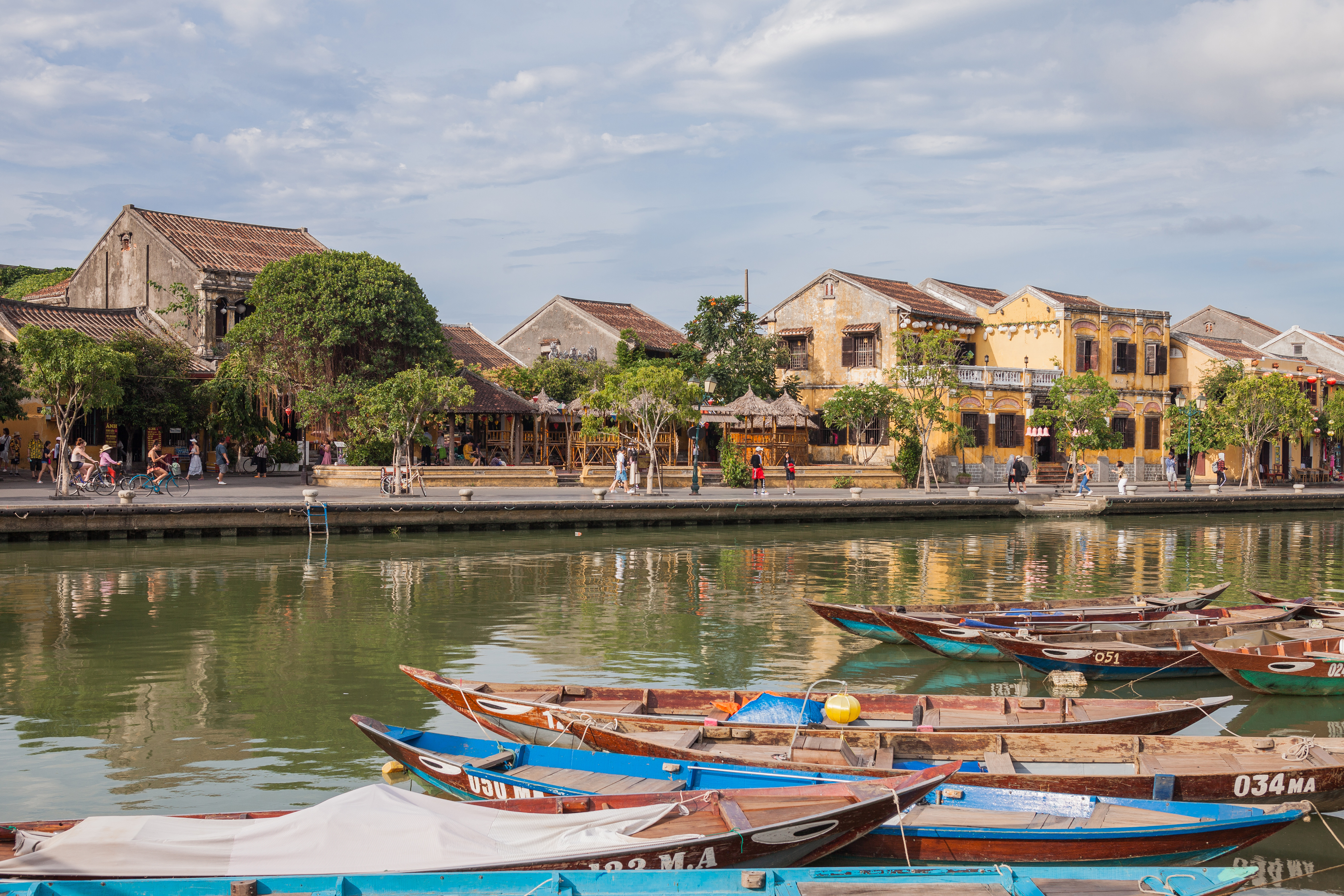 View of Riverfront of Hội An, Vietnam.